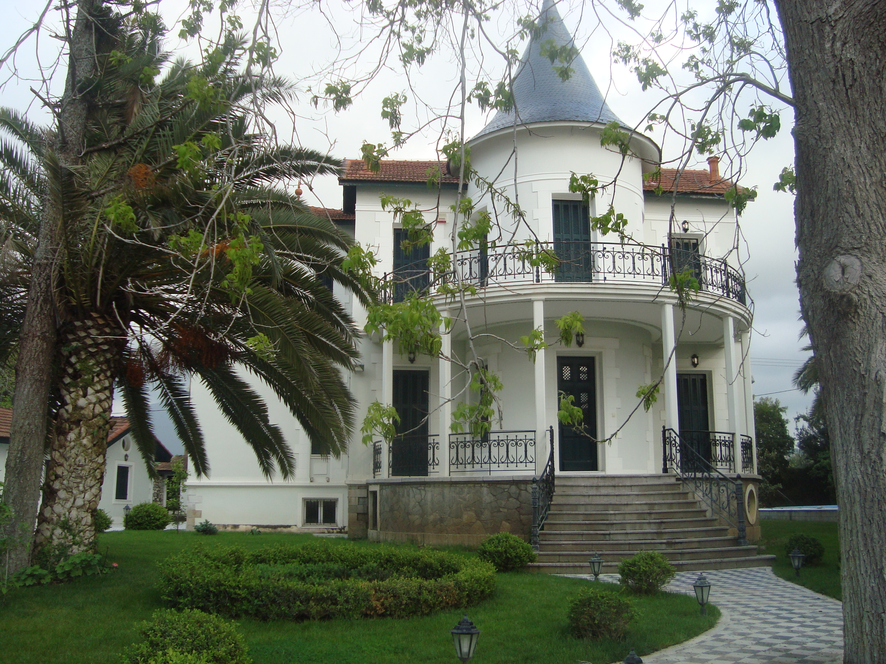 Villa Crove , Egglezika Districts Patras